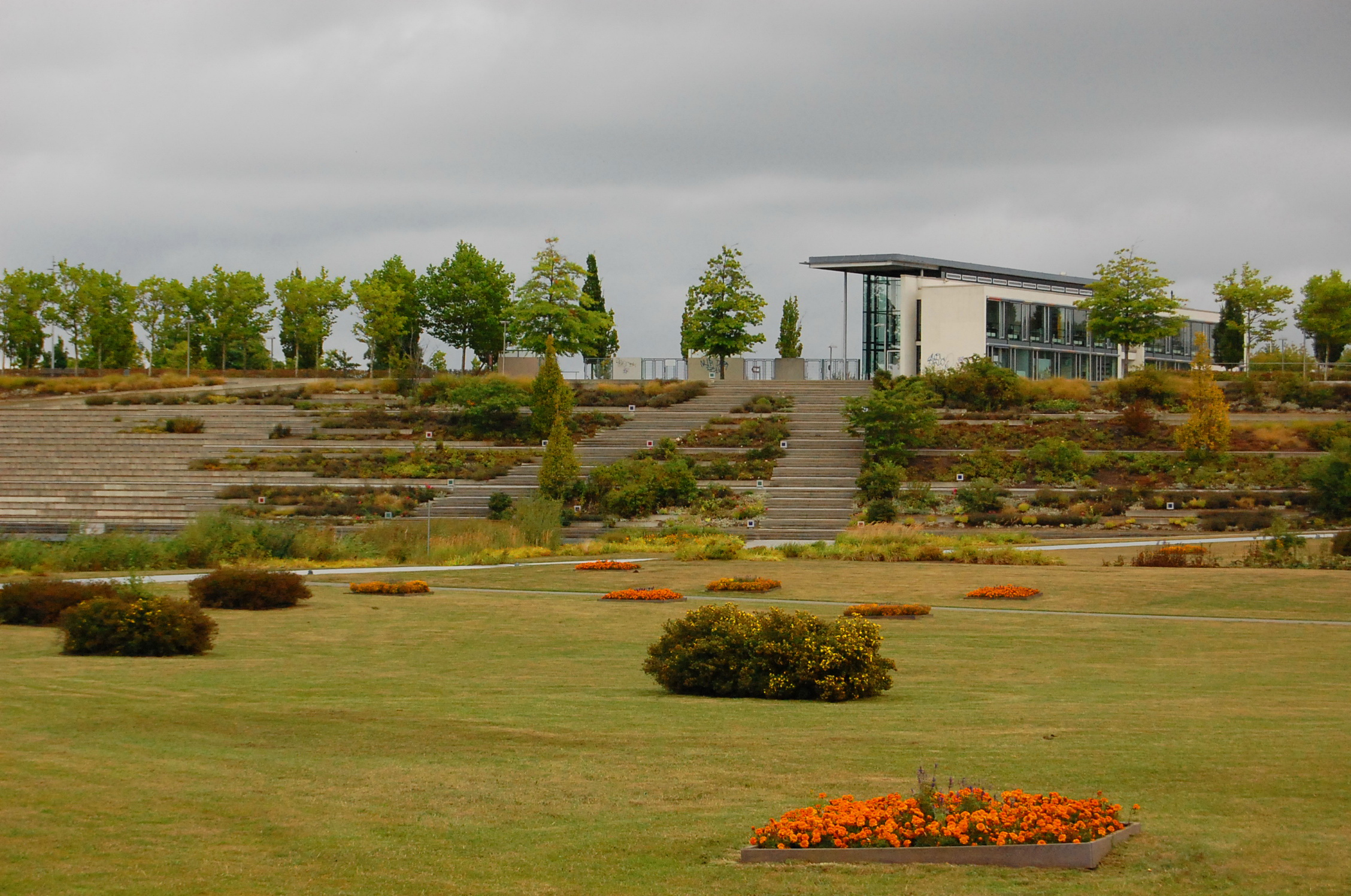 Budynek administracyjny muzeum